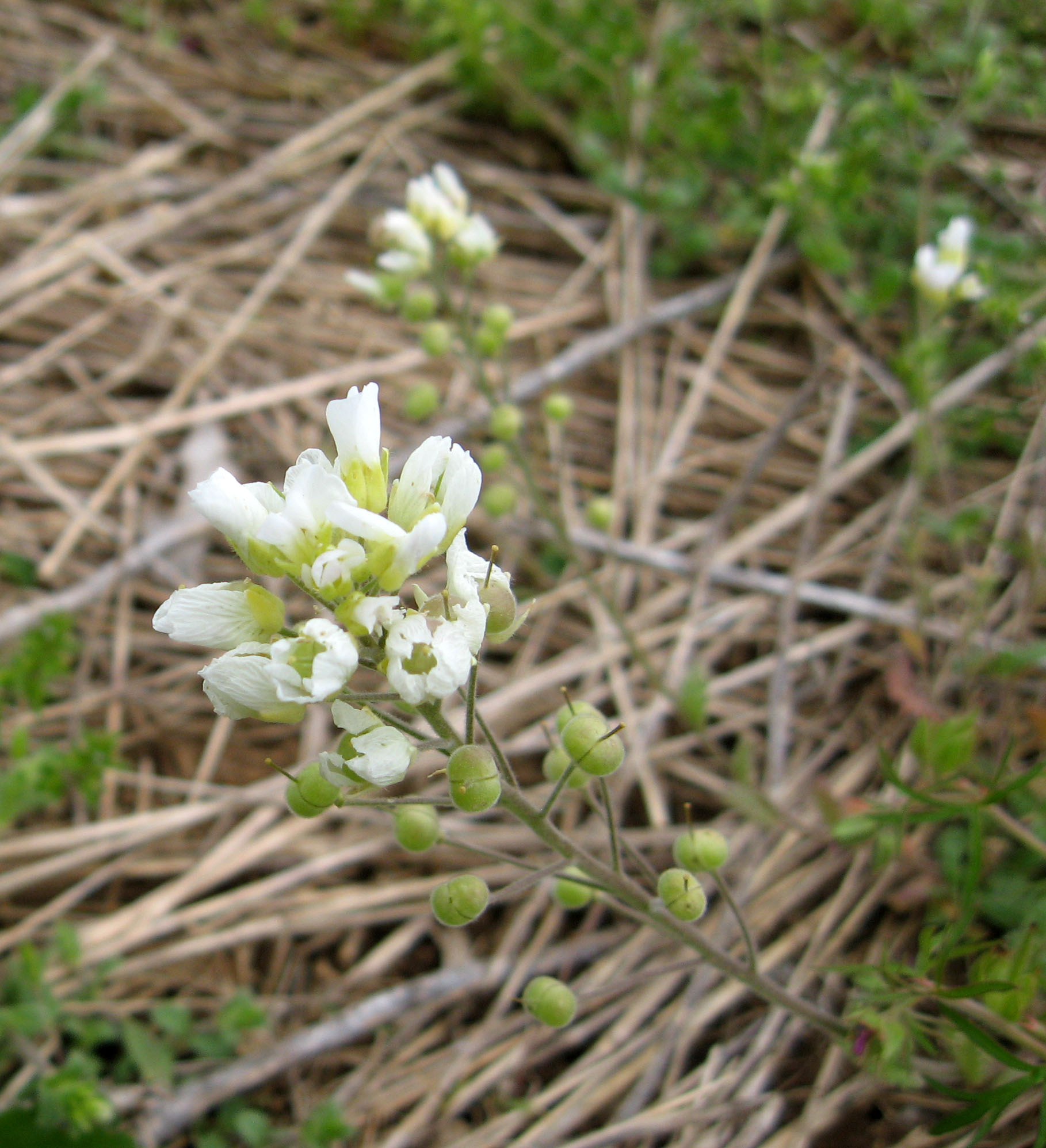 Paysonia stonensis, Walterhill Floodplain on the Stones River, Rutherford County, Tennessee.